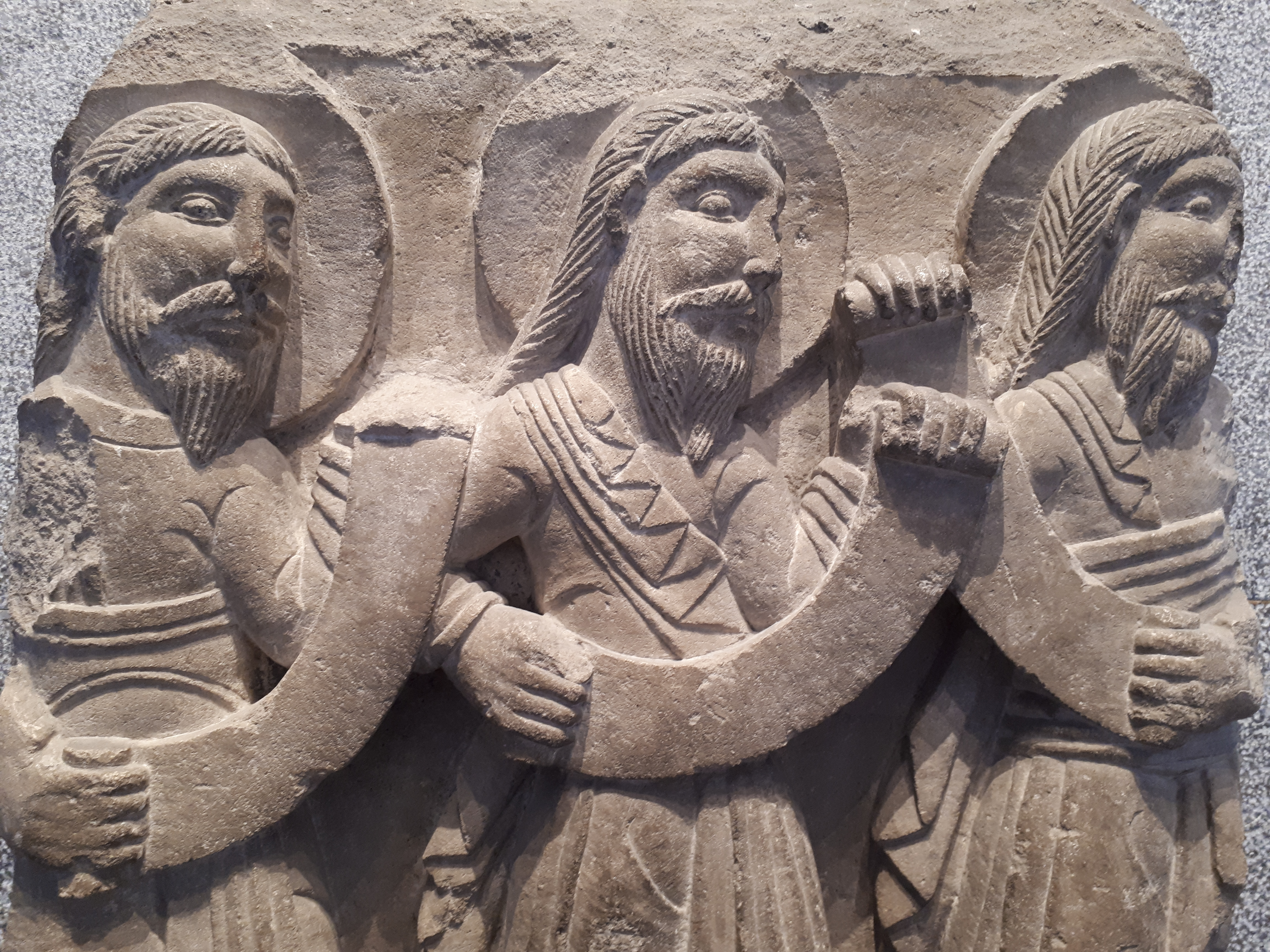 Three prophets. Reflief from the romanesque cathedral of Vic (Catalonia) Museum of Fine Arts Lyon 12th C